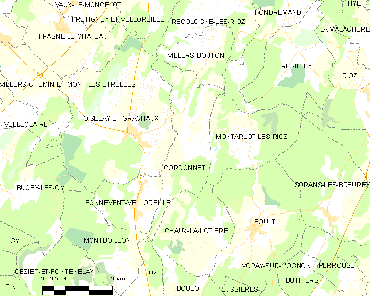 Map of French municipality